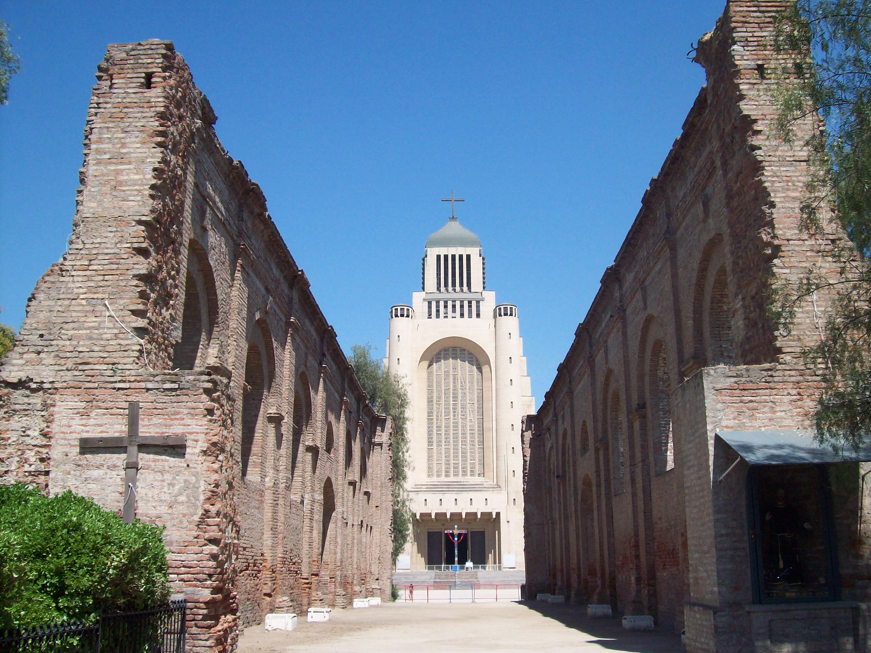 Walls of the Capilla de la Victoria (1882), and Templo Votivo de Maipú (background), Maipú, Santiago of Chile.